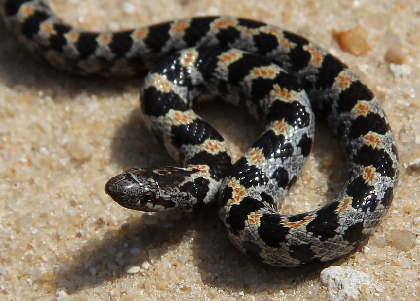 Marion County, FL